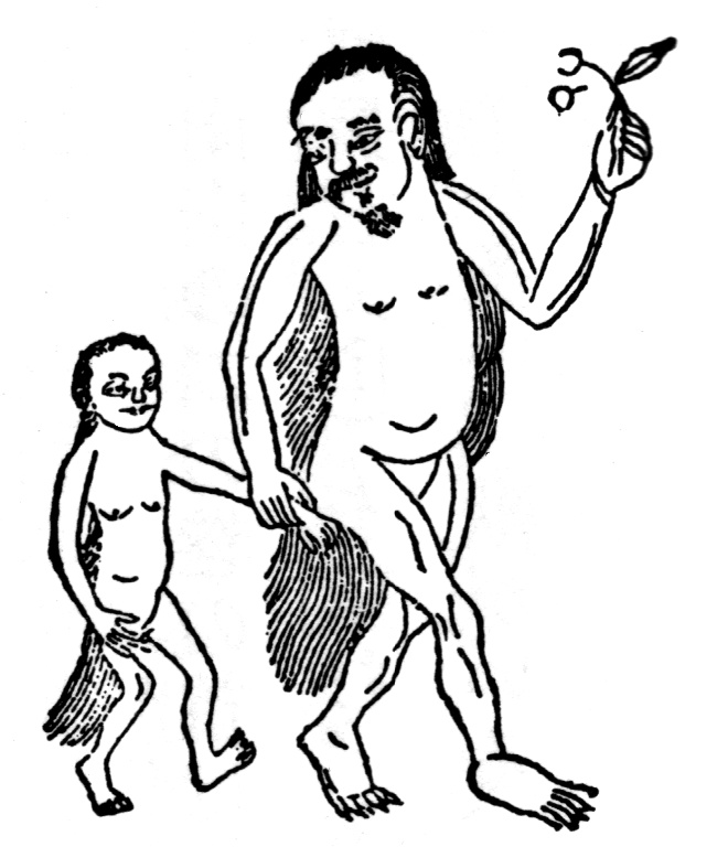 A drawing of the legendary creature shēngshēng (狌狌), also written xīngxīng (猩々), from a 1596 edition of The Classic of Mountains and Seas (山海經, Shān Hǎi Jīng).